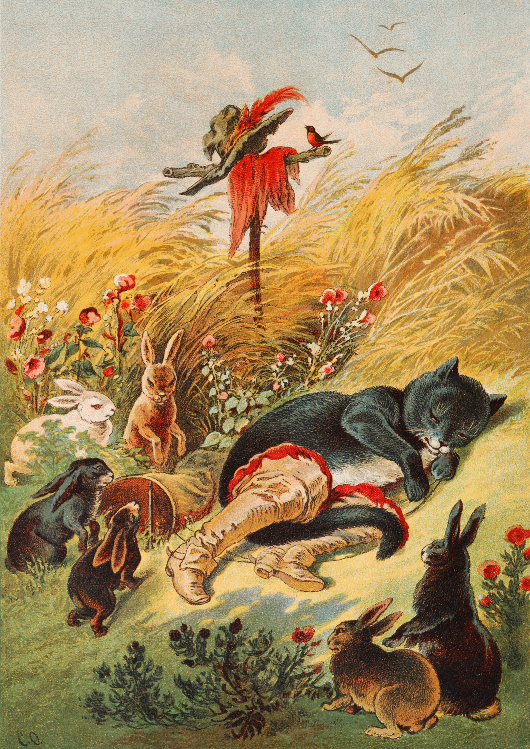 Puss in Boots, illustration by Carl Offterdinger